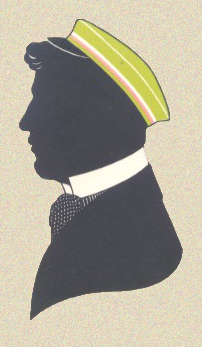 Silhouette